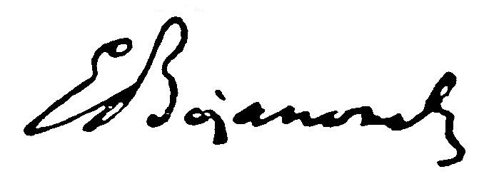 Signature of Edmund Bojanowski (14 August 1865)